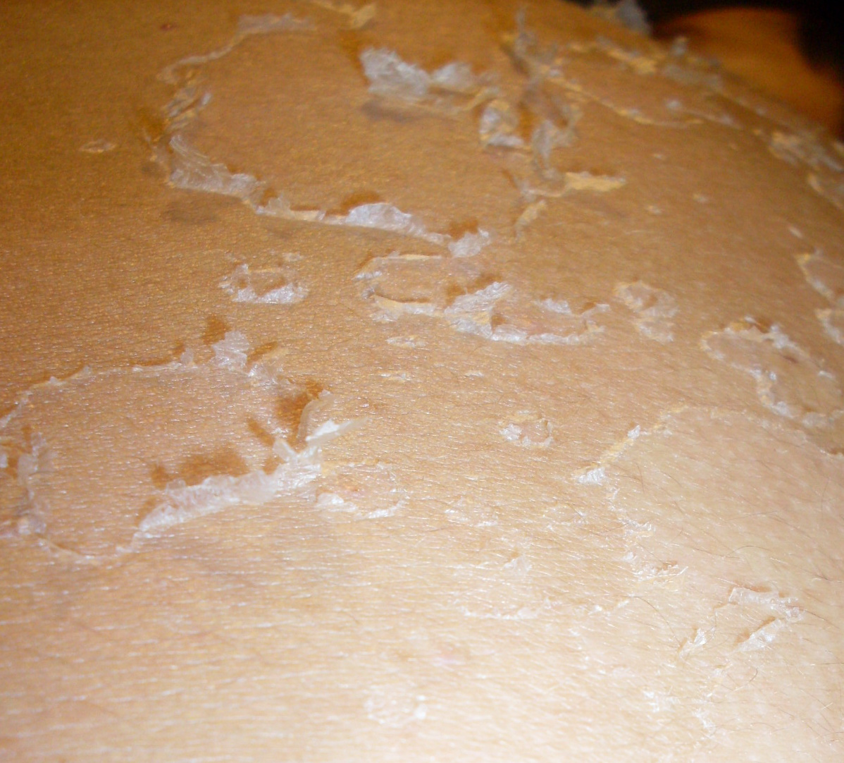 Stratum corneum peeling off due to a previous sunburn.